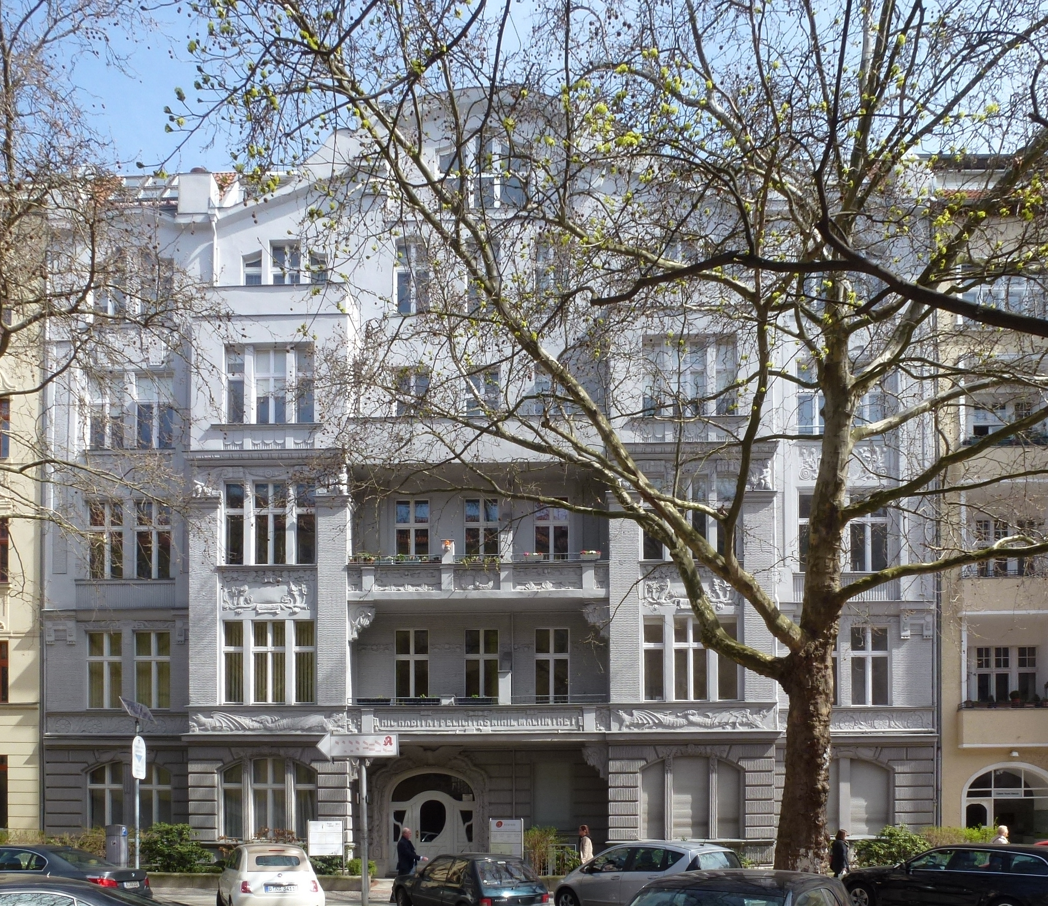 Berlin-Charlottenburg Giesebrechtstraße 20